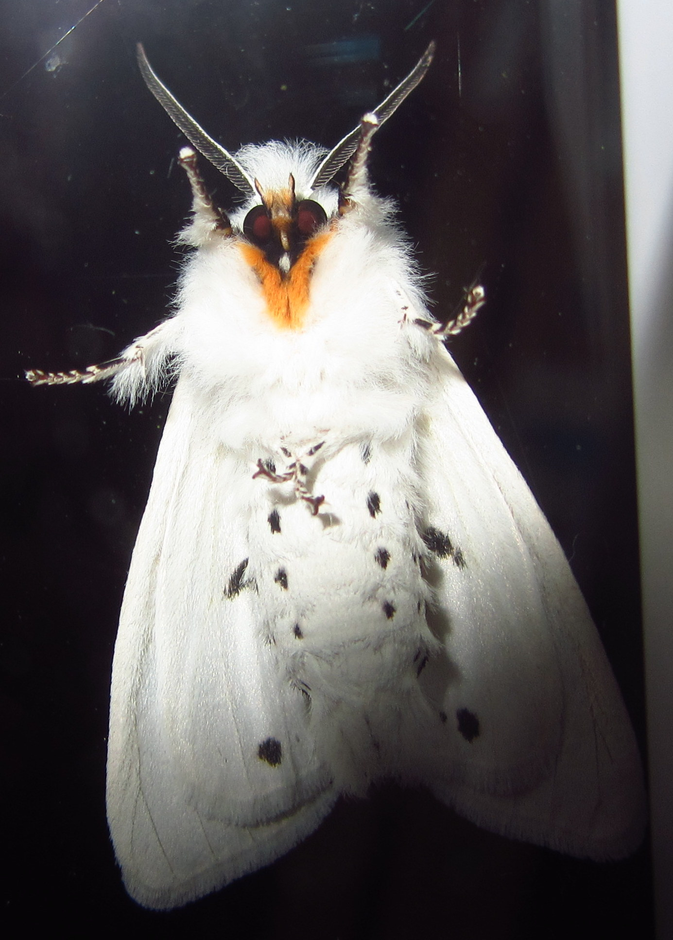 Adult Agreeable Tiger Moth